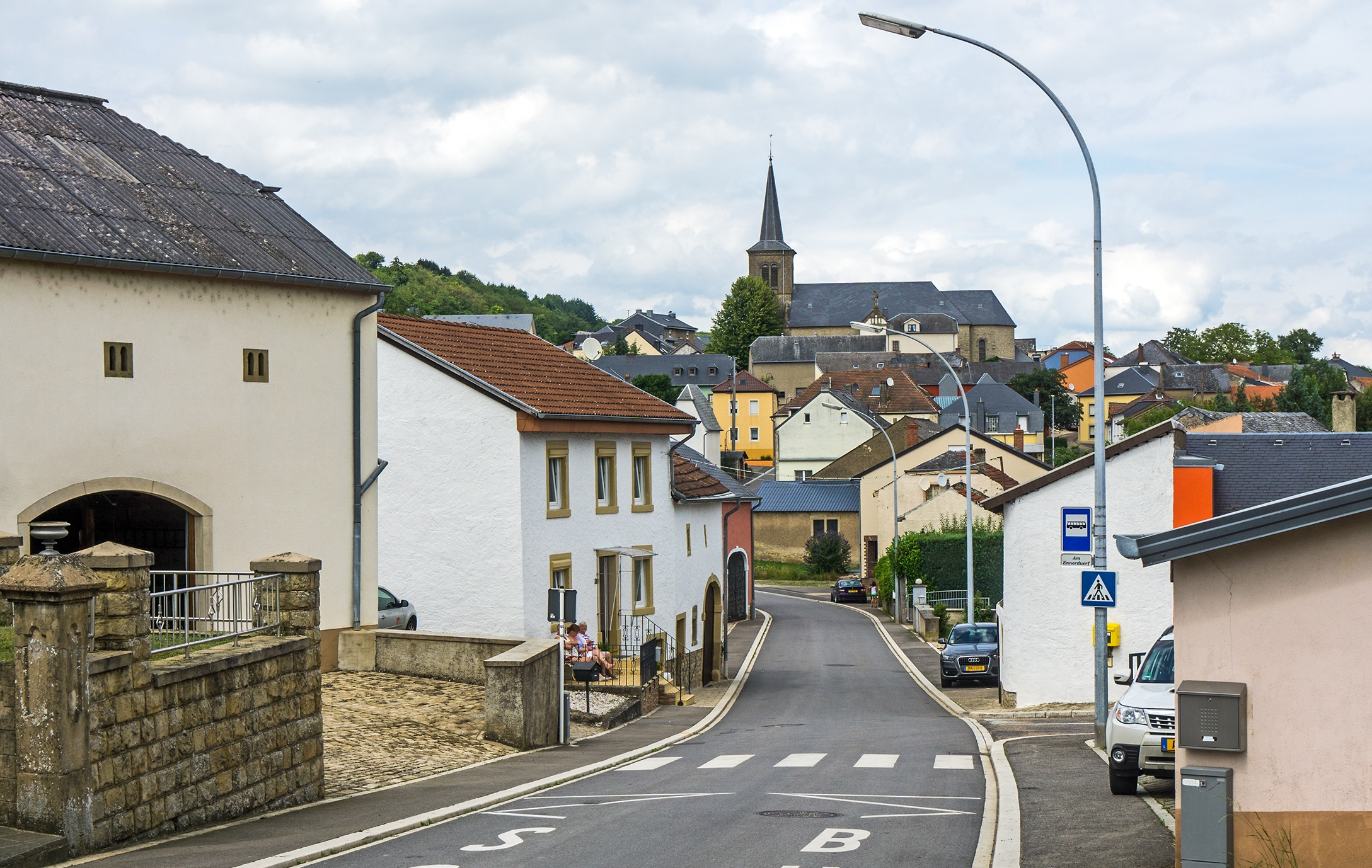 In the Burgaass in Gostingen